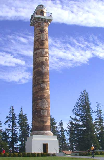 The Astoria Column in Astoria, Oregon (taken Nov. 6, 2004) © 2004 Matthew Trump